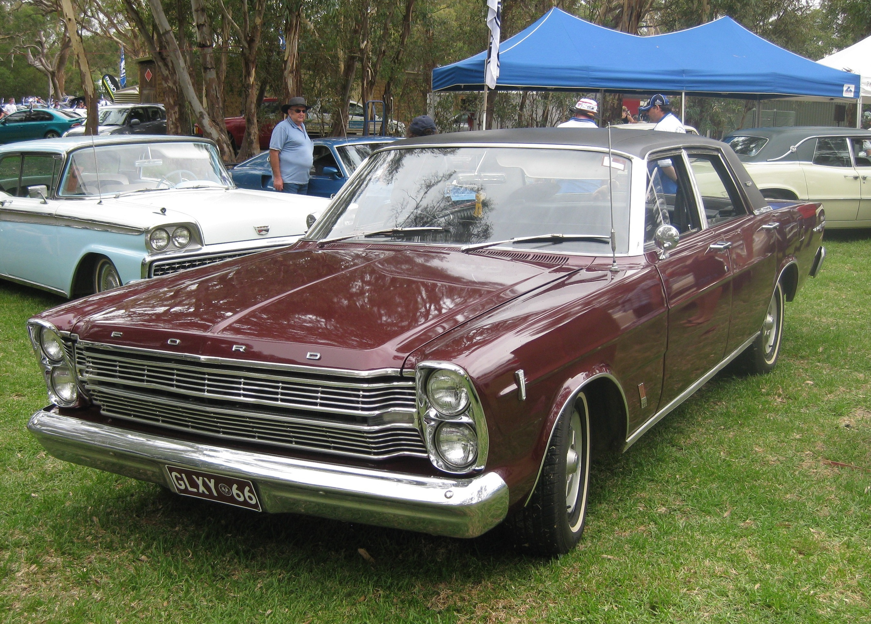 1966 Ford Galaxie 500 Sedan. The Galaxie 500 was assembled by Ford Australia at its Homebush plant from 1965 to 1968.